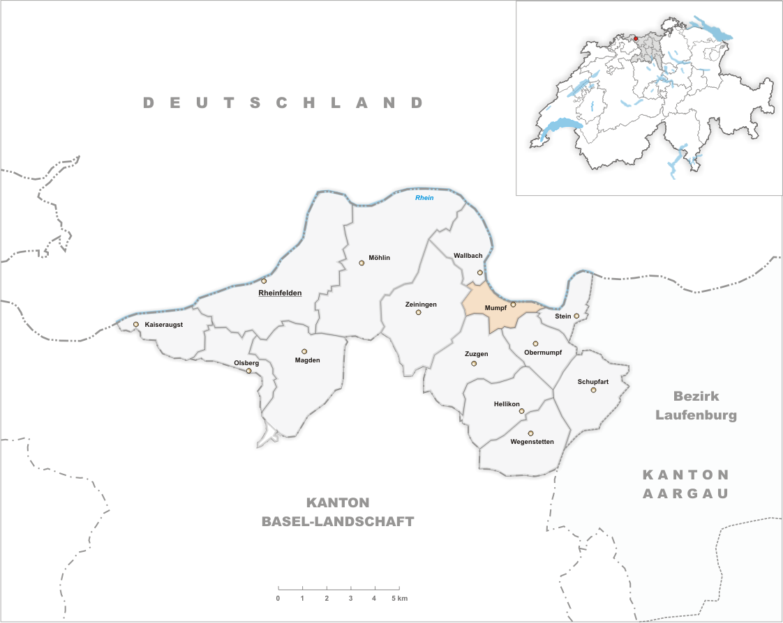 Municipality Mumpf